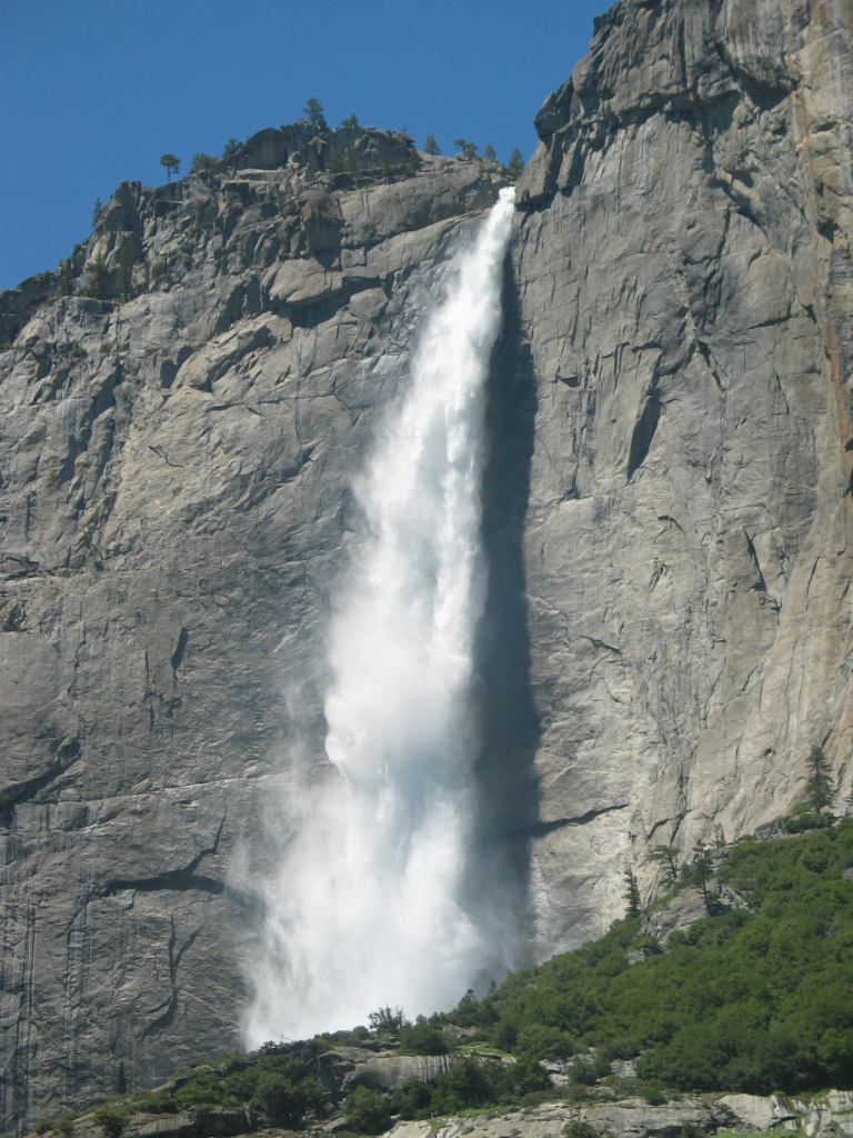 Yosemite Falls.